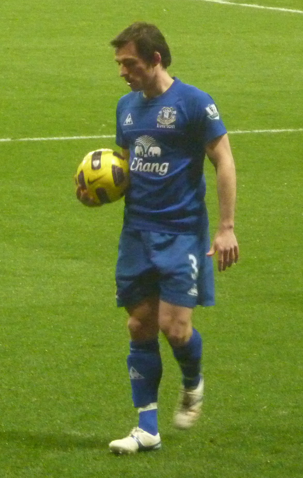 Leighton Baines going to take a corner at Emirates, Quite like him, although never get into our team.